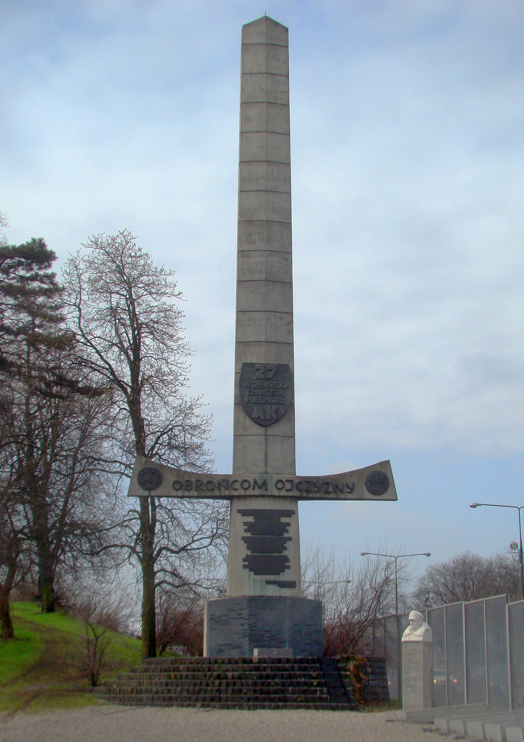 27th Wolhynian AK Infantry Division Monument in Warsaw